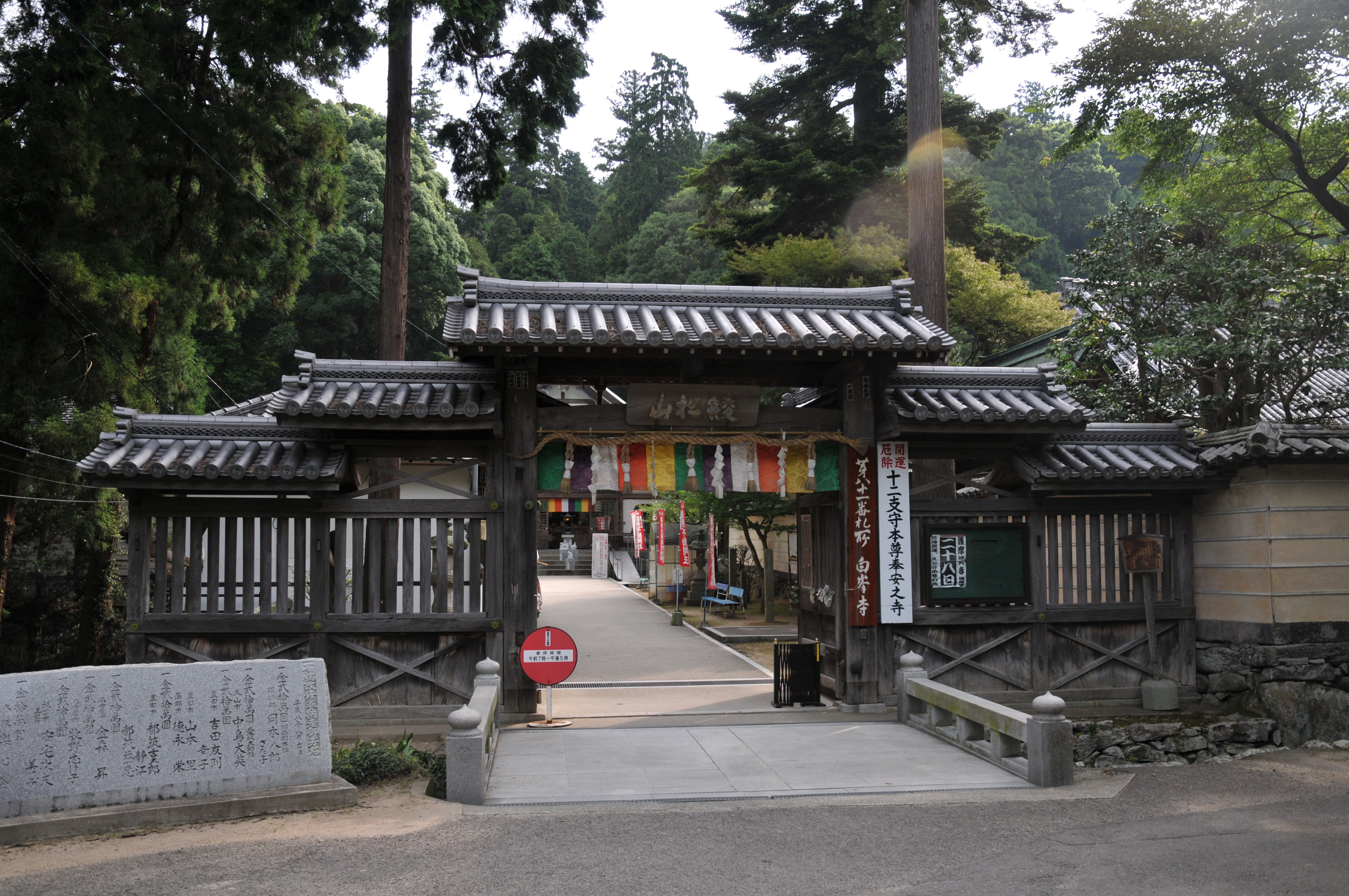 Temple gate, Shiromine-ji